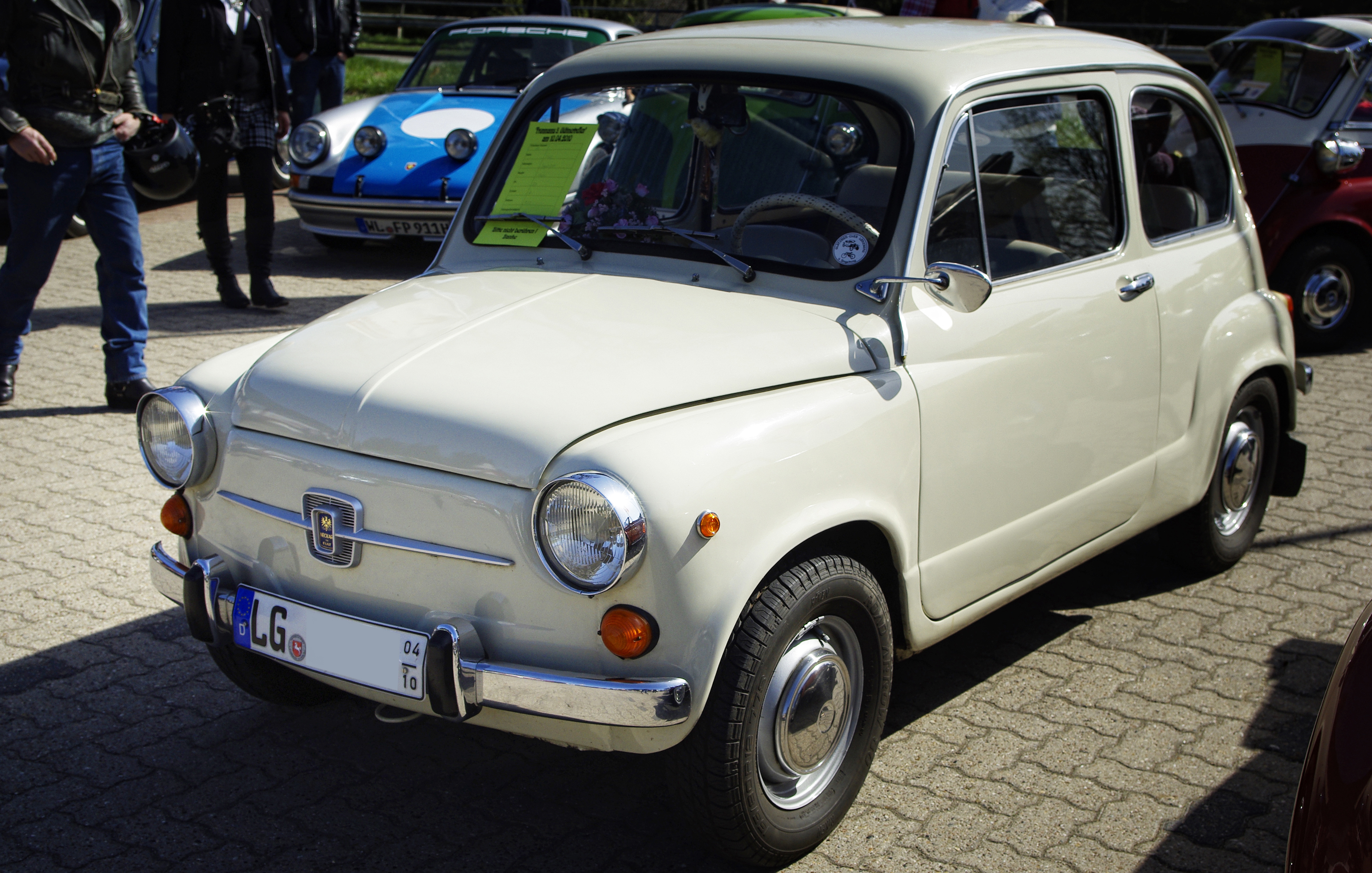 NSU-Fiat Jagst